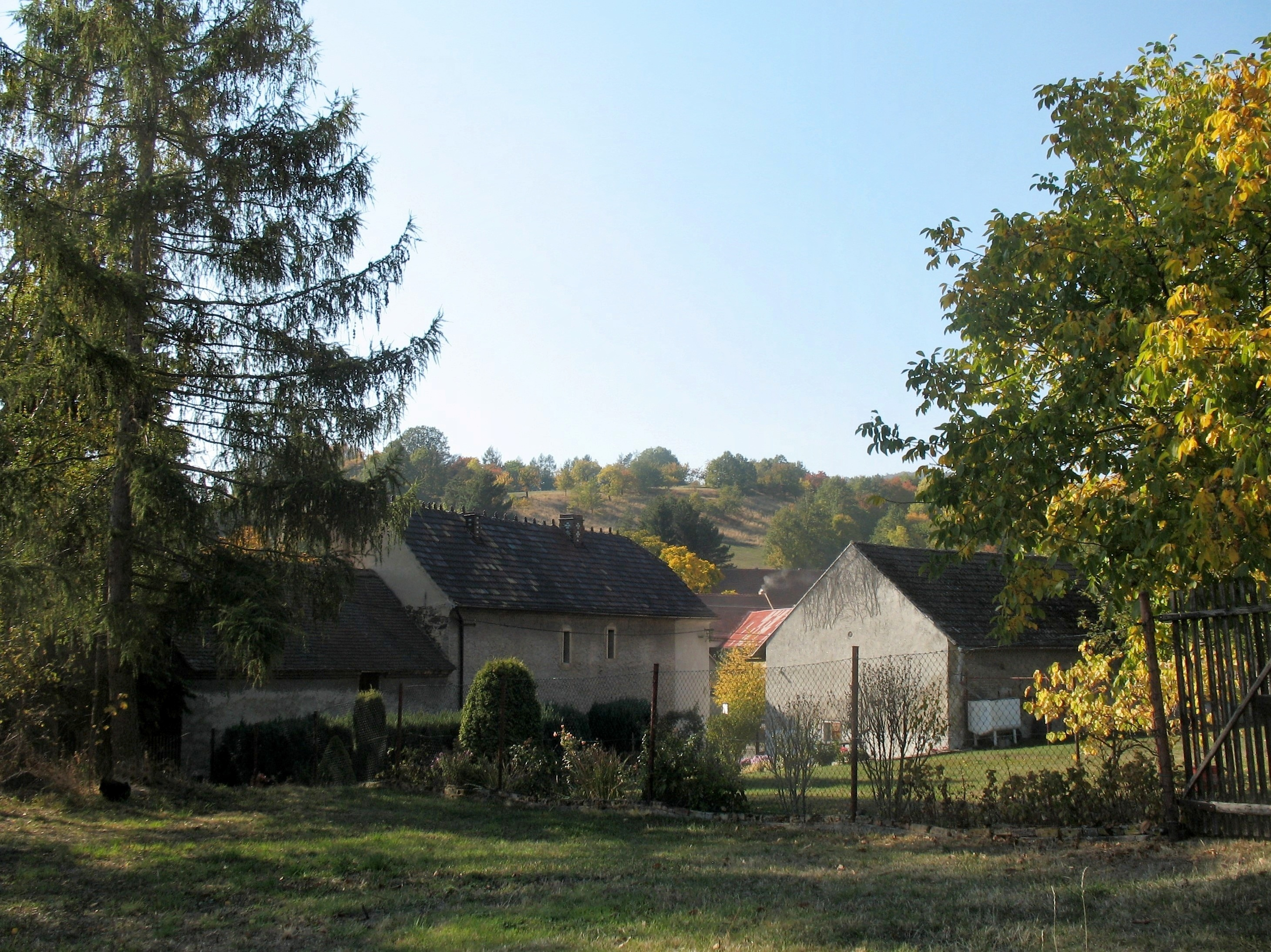 Linhorka Hill near Staré (Třebívlice), Litoměřice District, Czech Republic